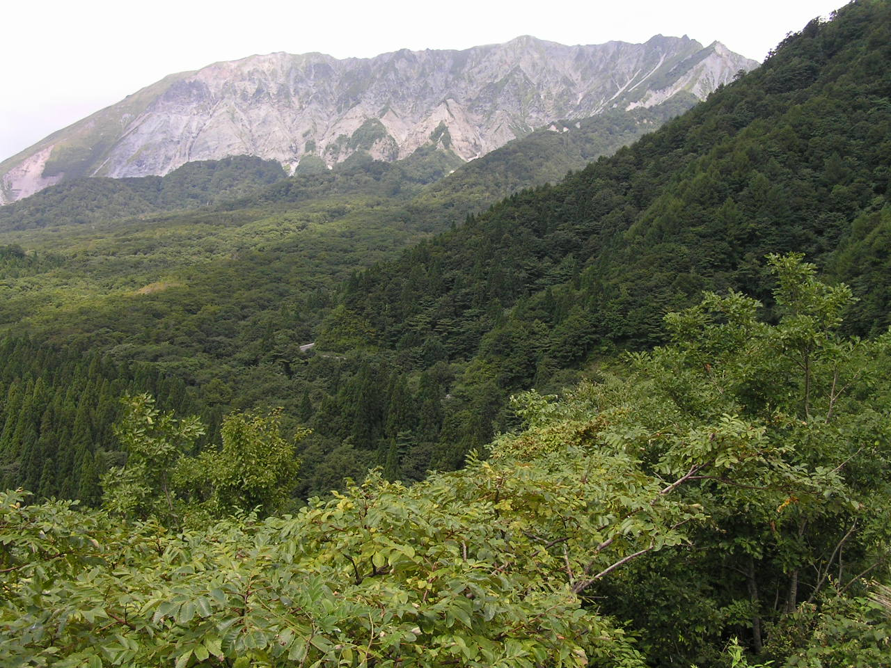 Kagikake-toge,鍵掛峠